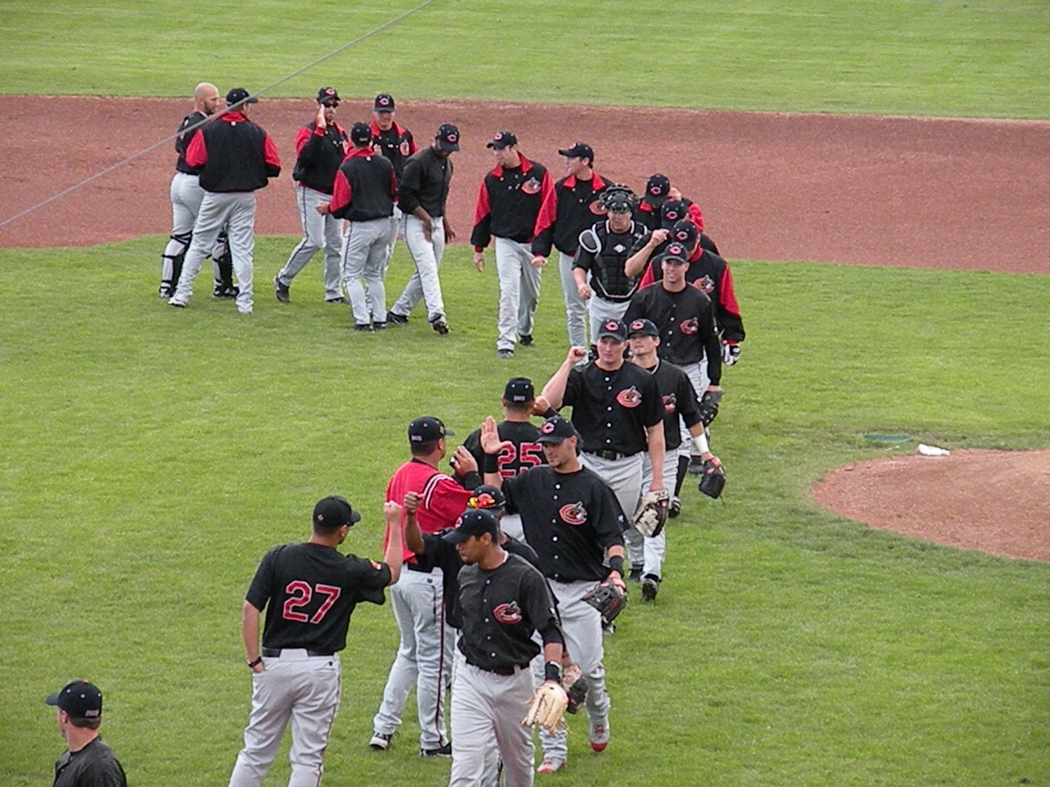 Chico Outlaws players celebrate a Golden Baseball League victory over the Calgary Vipers in Calgary, June 14, 2008.